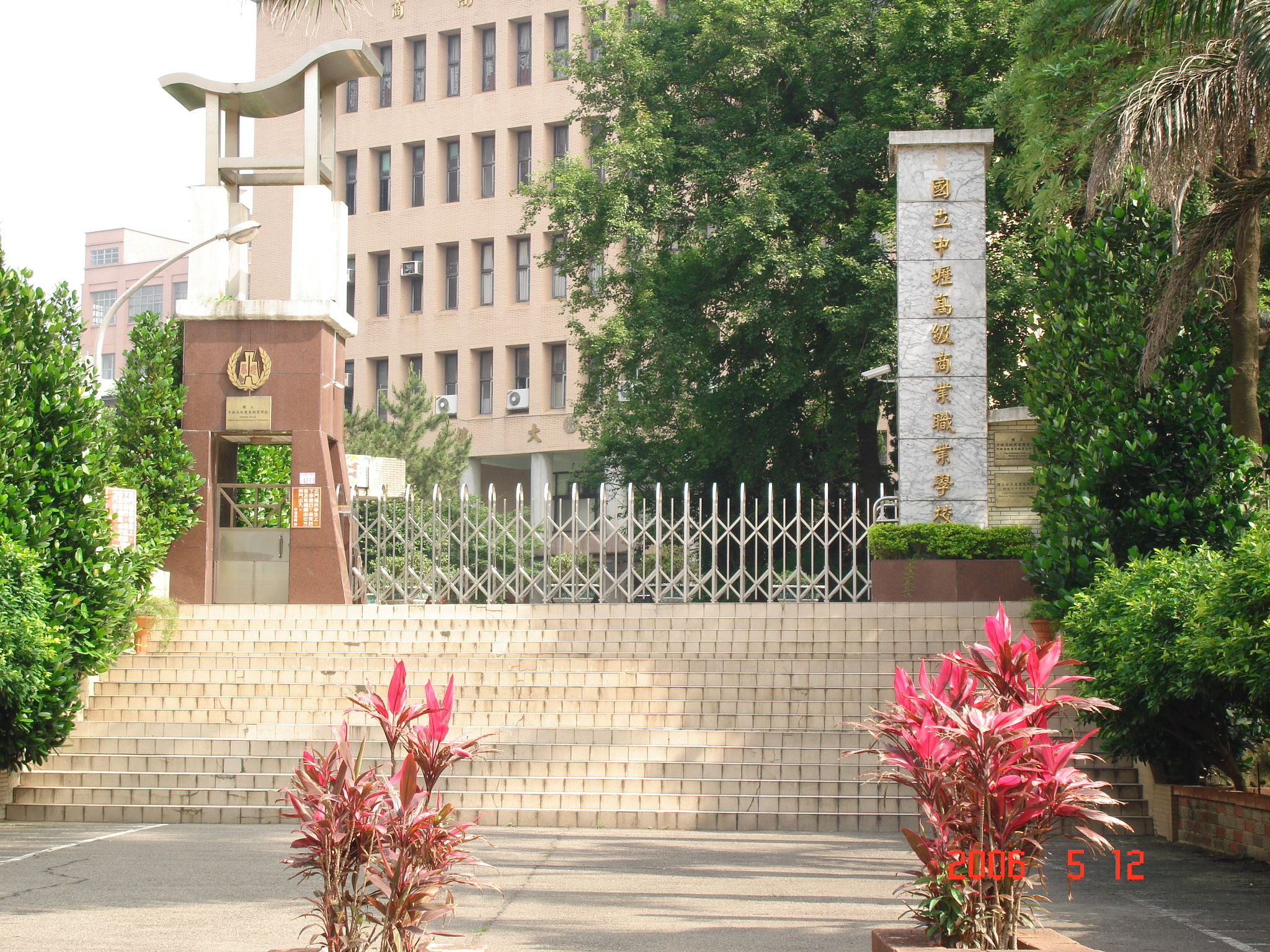 National Chung-Li Senior Vocational School of Commerce, Jhongli City, Taoyuan, Taiwan.